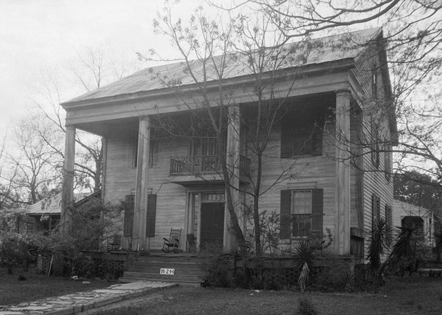 Wynne House, 307 Wilson Avenue, Eutaw, Greene County, AL. FRONT VIEW. Listed on the National Register of Historic Places as the David Rinehart Anthony House.